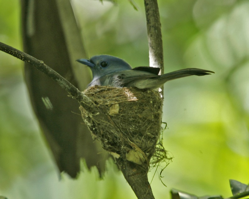 Pale-blue Monarch Hypothymis puella (syn. Hypothymis azurea puella). Tangkoko Nature Reserve, North Sulawesi, Indonesia, 11 July 2006.